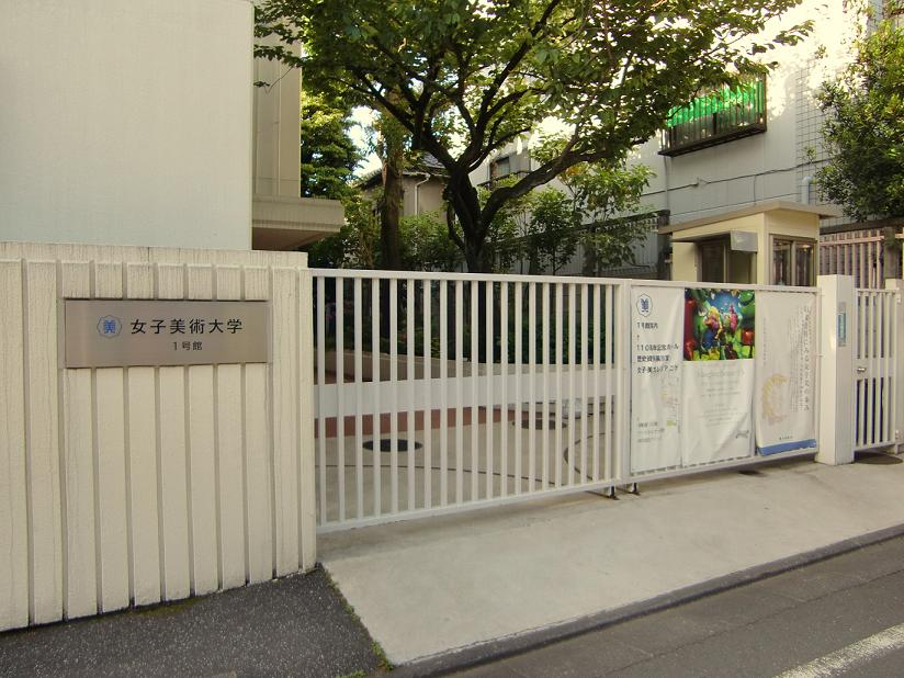 Joshibi Galleria Nike entrance in Suginami, Tokyo.